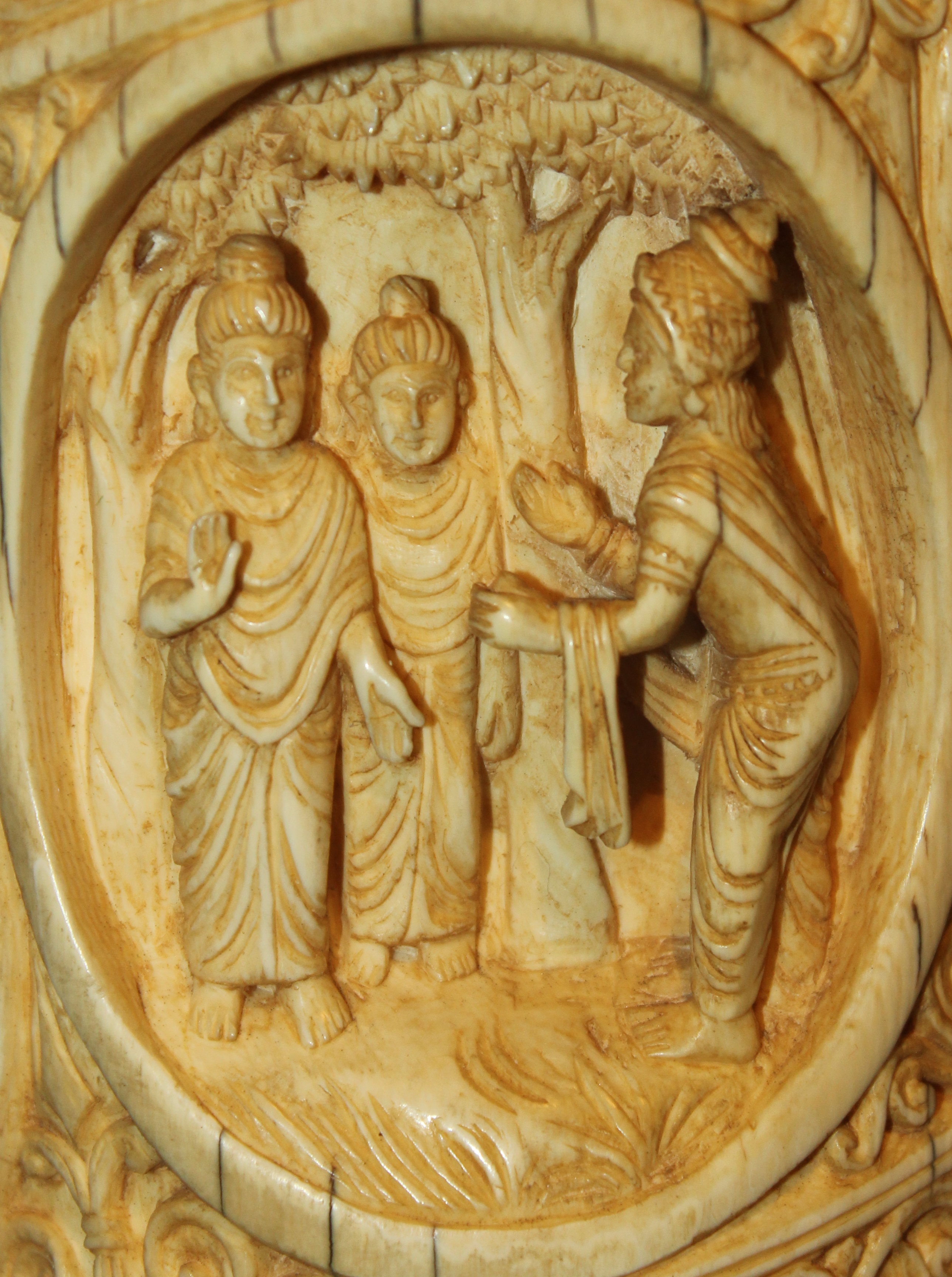 Roundel 30: Magadh King welcomes Buddha